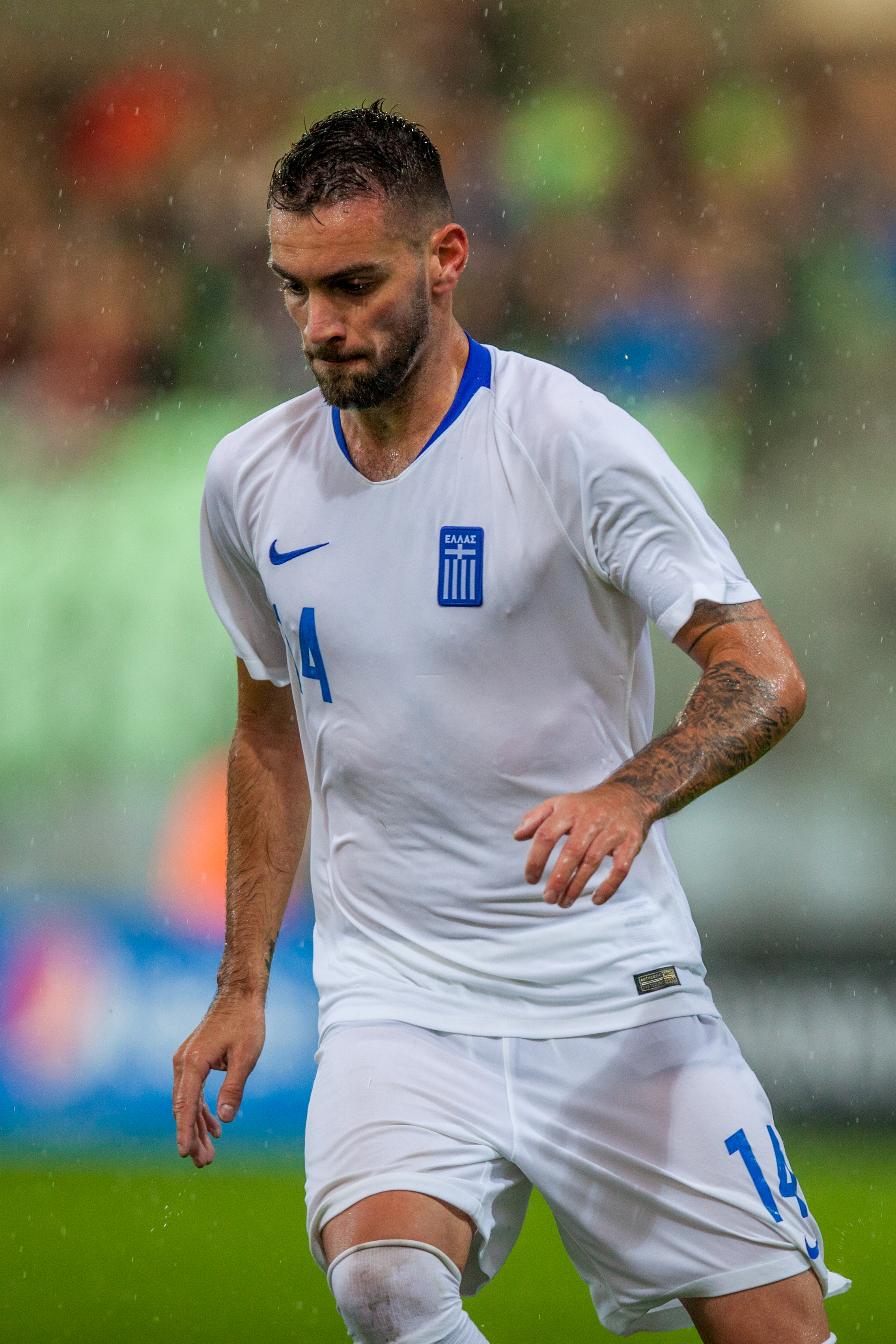 Konstantinos Dimitriou in an internatinoal association football match of European Under-21 Championship Qualifying Round between the Czech Republic and Greece, Městský stadion Karviná, Karviná District, Moravian-Silesian Region, Czechia Personality rights warningAlthough this work is freely licensed or in the public domain, the person(s) shown may have rights that legally restrict certain re-uses unless those depicted consent to such uses. In these cases, a model release or other evidence of consent could protect you from infringement claims.